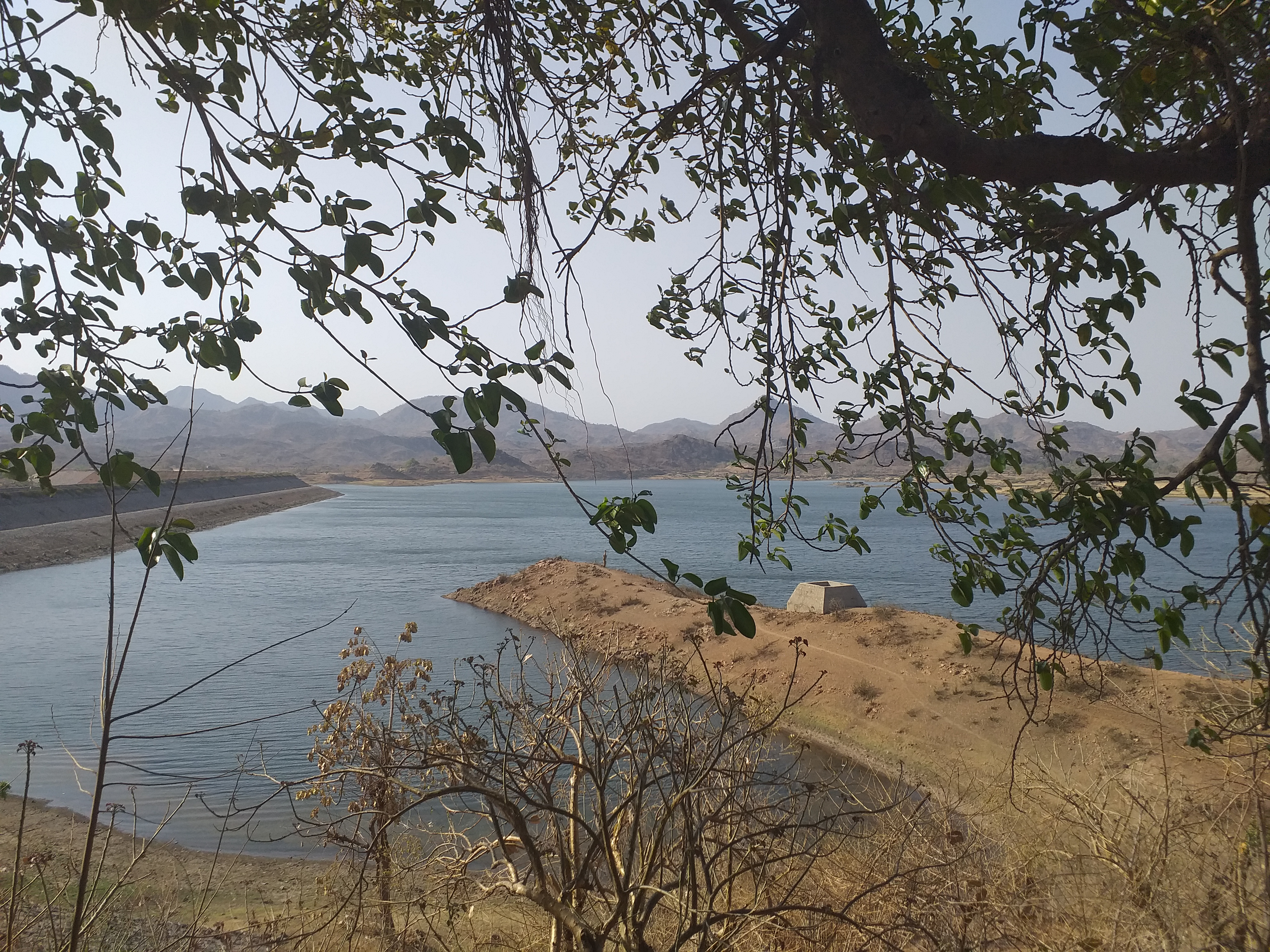 View of reservoir of Sei Dam. The dam is on the Sei River, a tributary of Sabarmati River. Photo taken on 25 April 2019.